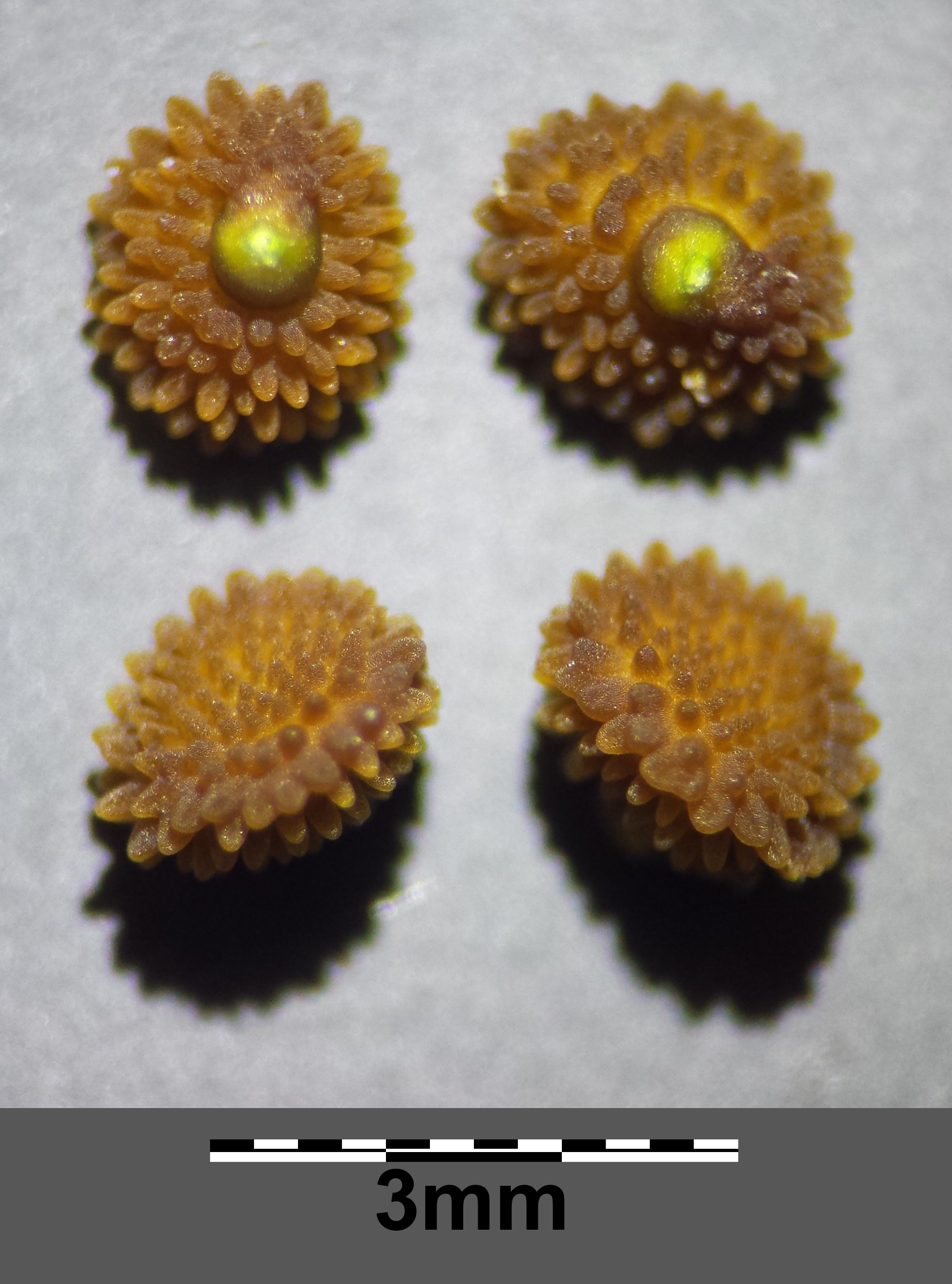 Fruitlets Taxonym: Scutellaria hastifolia ss Fischer et al. EfÖLS 2008 ISBN 978-3-85474-187-9 Location: Mitterluss near Zurndorf, district Neusiedl am See, Burgenland, Austria - ca. 130 m a.s.l. Habitat: wet meadows